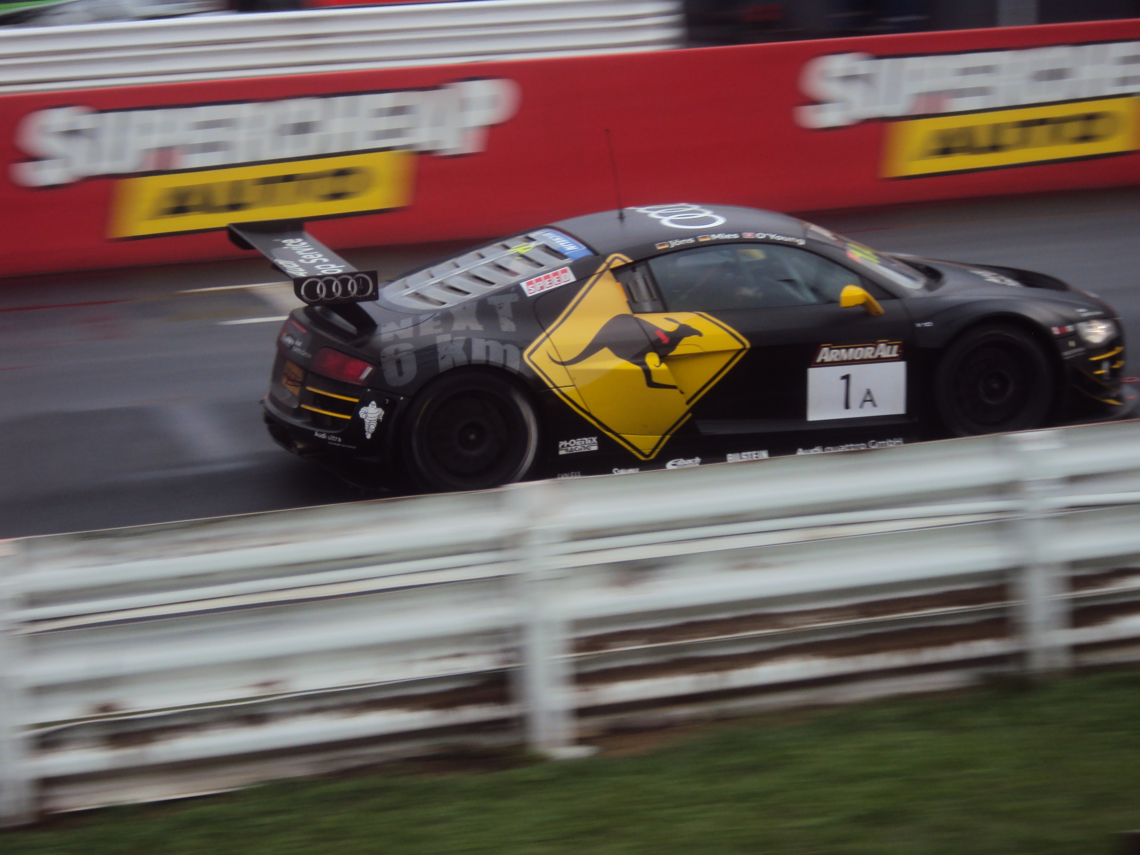 The winner of the 2012 Bathurst 12 Hour, an Audi R8 GT3 LMS entered by Phoenix Racing and driven by Christer Jöns, Christopher Mies and Darryl O'Young